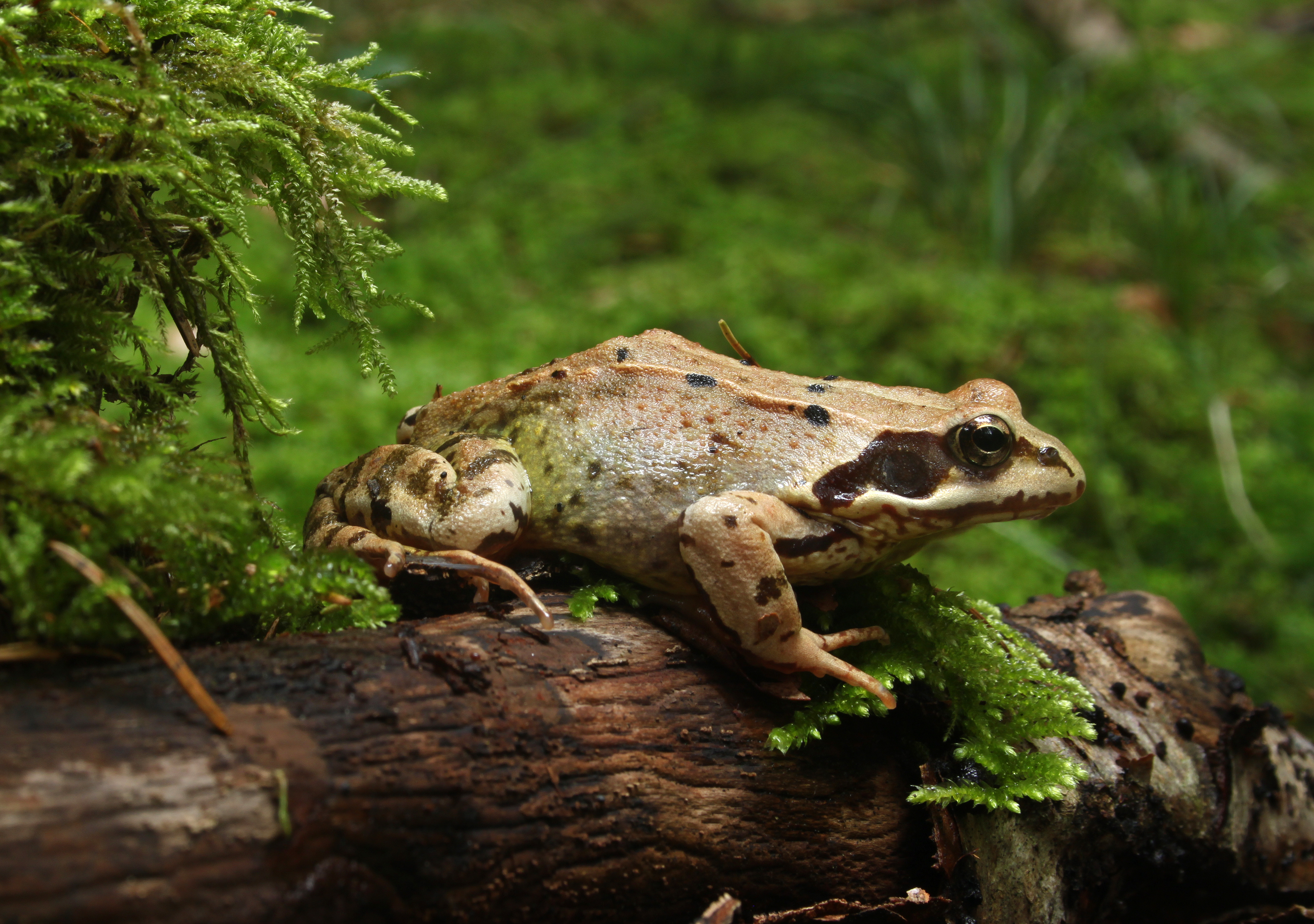 European Common Frog or European Common Brown Frog Rana temporaria, Family: Ranidae, Location: Germany, Ulm, Eggingen